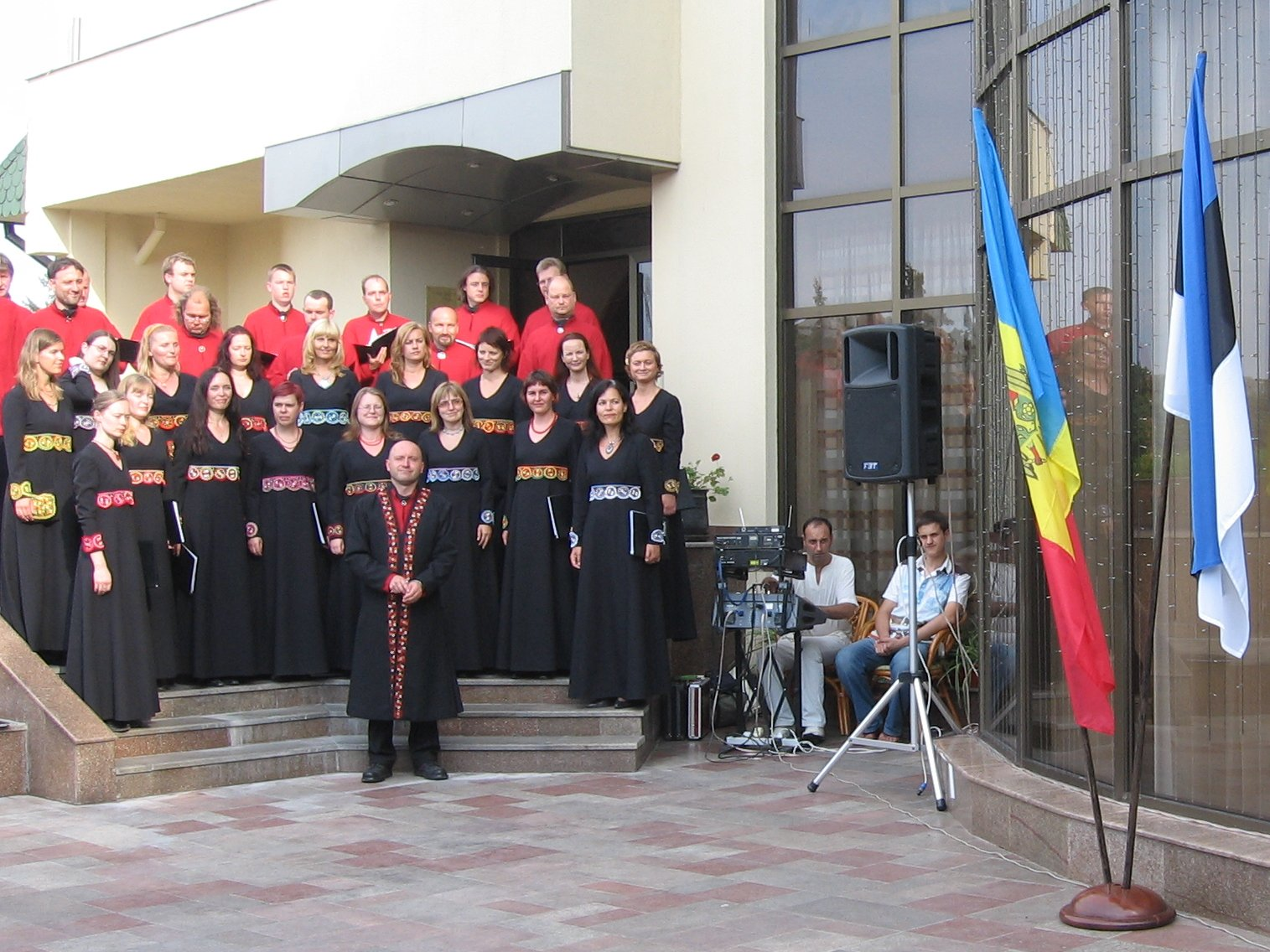 Chamber Choir Kalev in Chișinău. Conductor Erki Meister